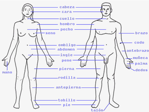 Human body external parts